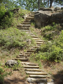 Kisatchie National Forest steps